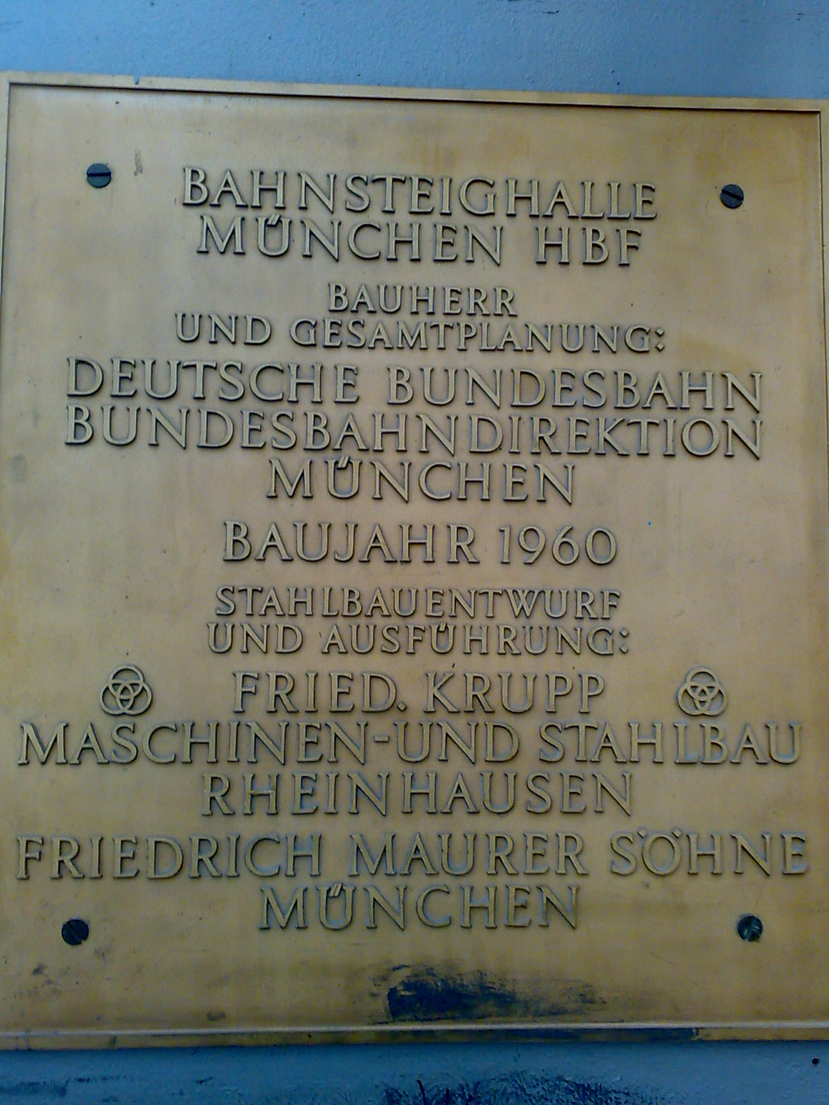 Information about the establishment of Munich's main train station (in German). This placate is located at train line no. 26.